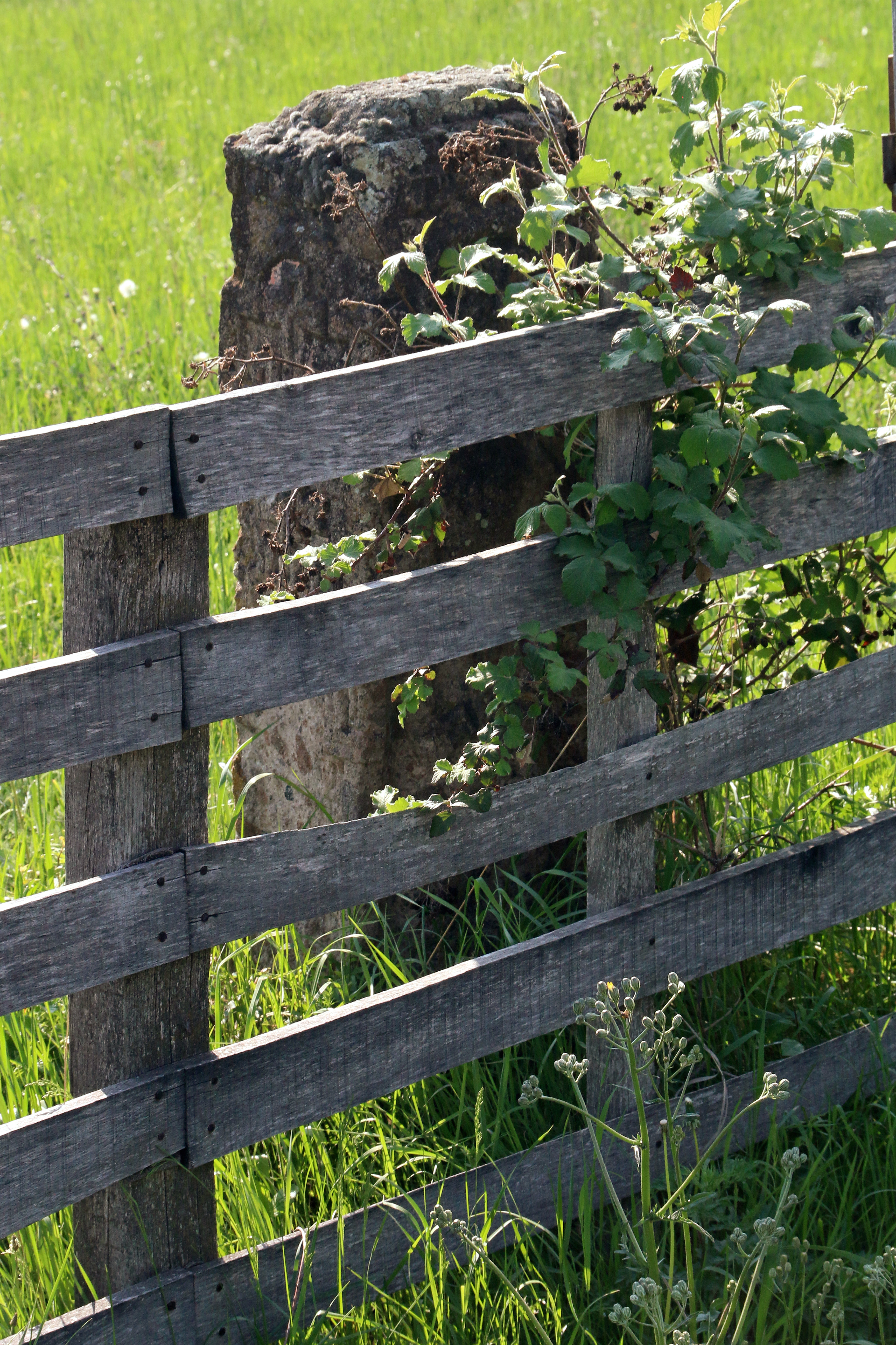 Roadside tombstone erected in memory of Krsta Brkovic. It is located in the village of Teocin (the municipality of Gornji Milanovac), Serbia.